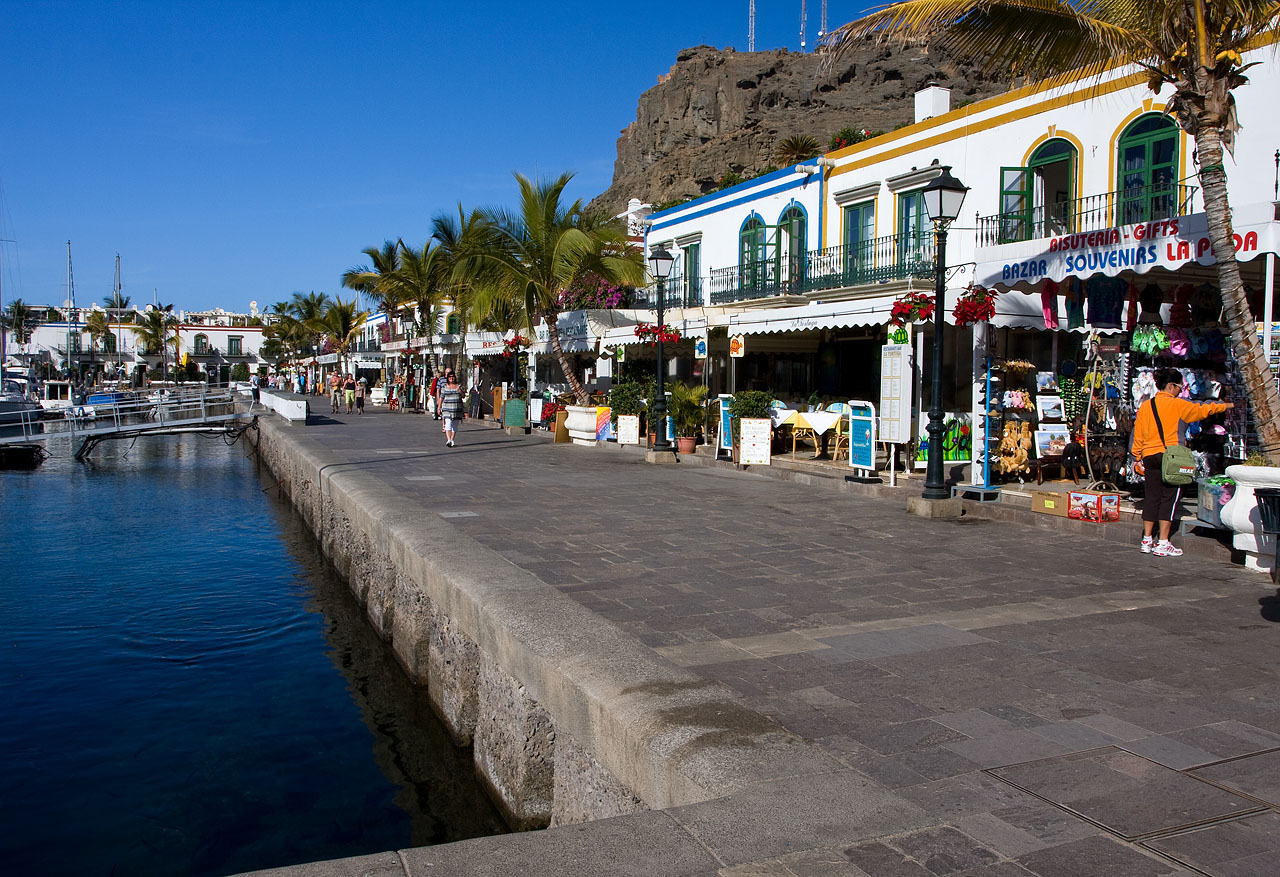 Puerto de Mogan at Grand Canaria, Spain. Canal-like channels linking the marina to the fishing harbour have led to it being nicknamed "Little Venice" or the "Venice of the Canaries". Restaurants and bars fringe the marina and the beach front.